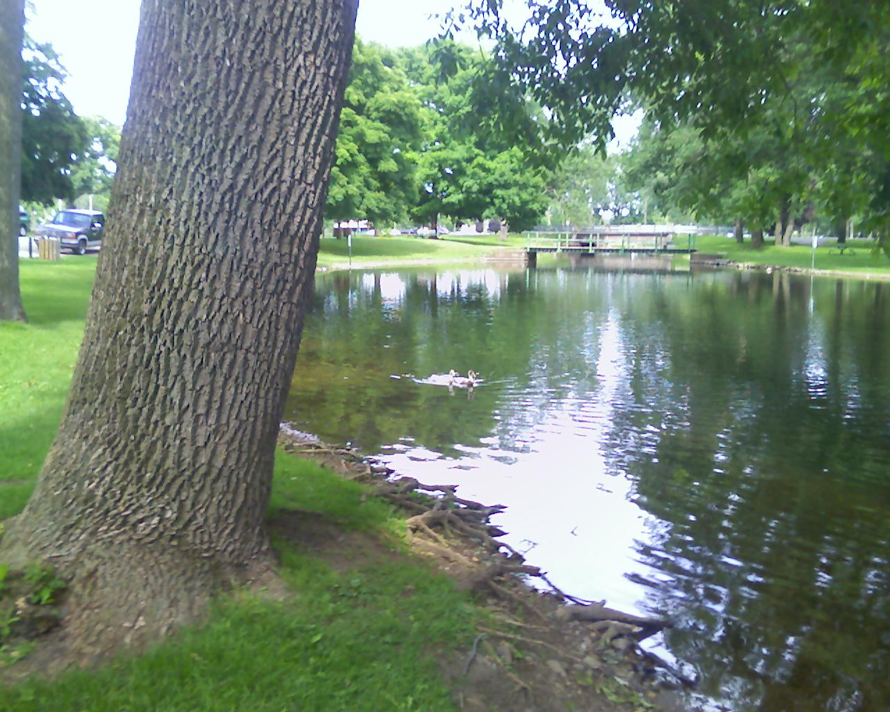 Waterworks Park in Coldwater, Michigan. Taken with a Motorola RAZR V3 (Sauk River, also called East Branch, Coldwater River)